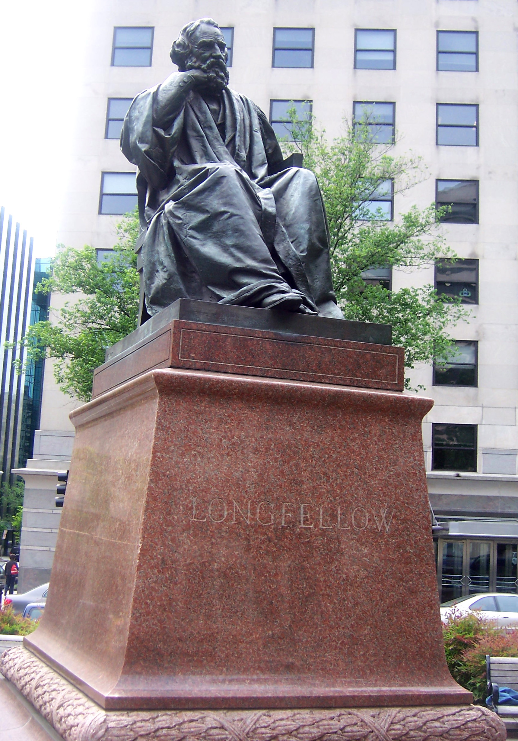 The Henry Wadsworth Longfellow statue in Washington Dc on the intersection of Connecticut Ave and M St NW.